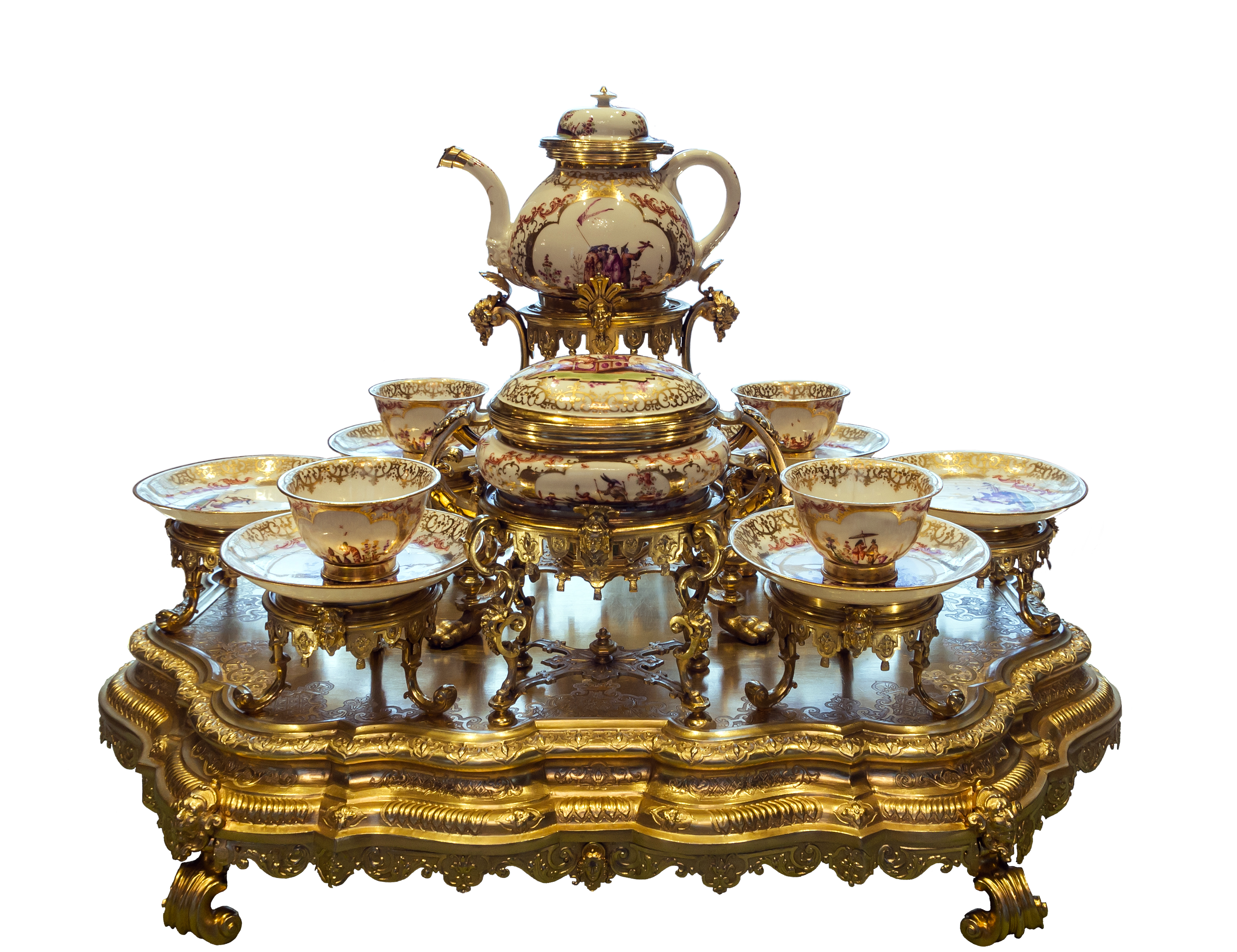 Tea service with surtout, Residenz, Munich, Bavaria, Germany. Tea service: Porcelain, painted for part by Johann Gregorious Hörodt (att.), Meissen, ca.1723/24 Surtout: gilt silver, by Johann Engelbrecht, Augsburg, ca.1729/33